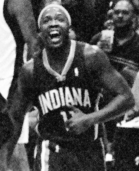 Jamaal Tinsley in 2006